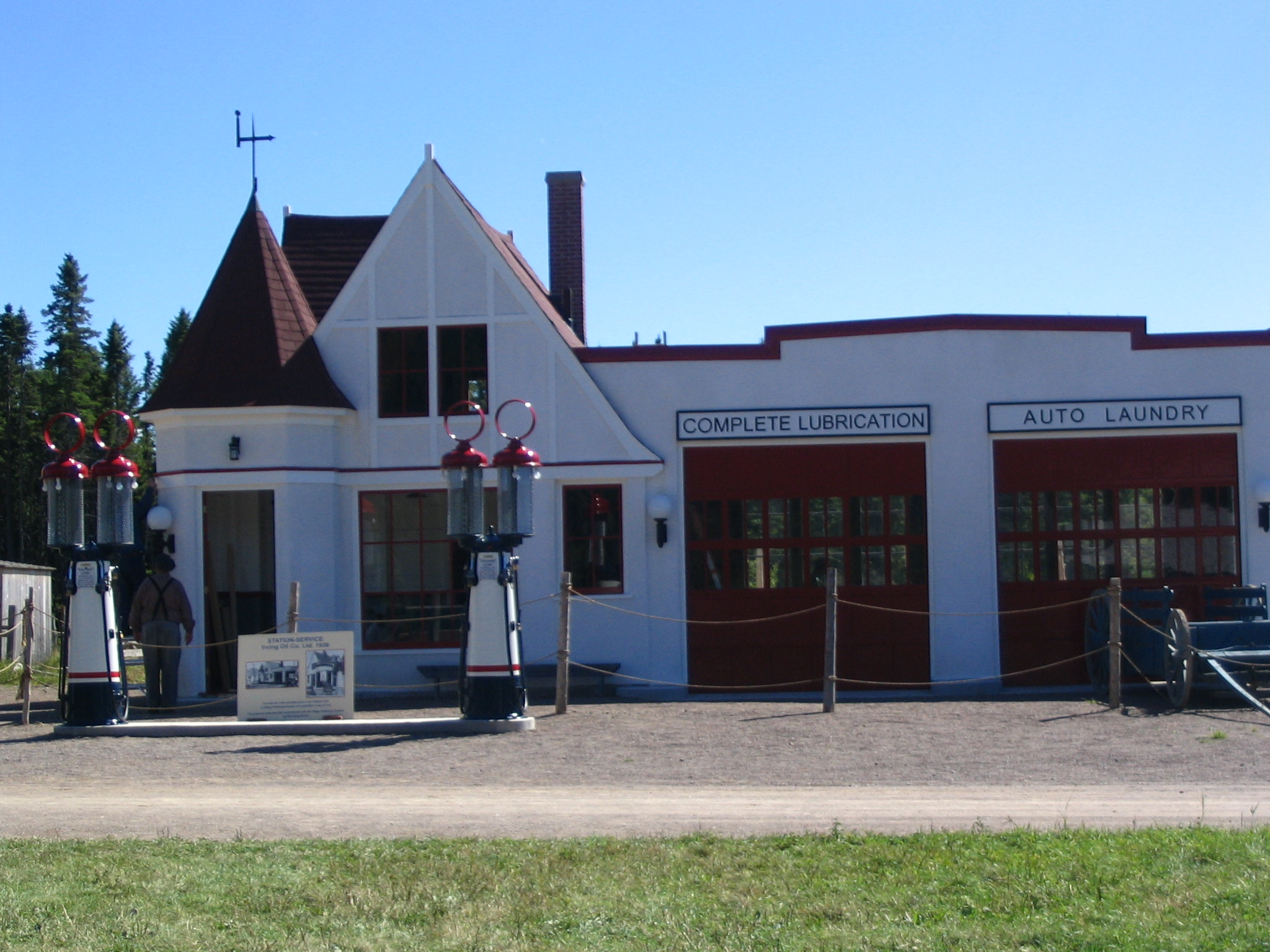 Gas station of the Village Historique Acadien, in New Brusnwic, Canada.